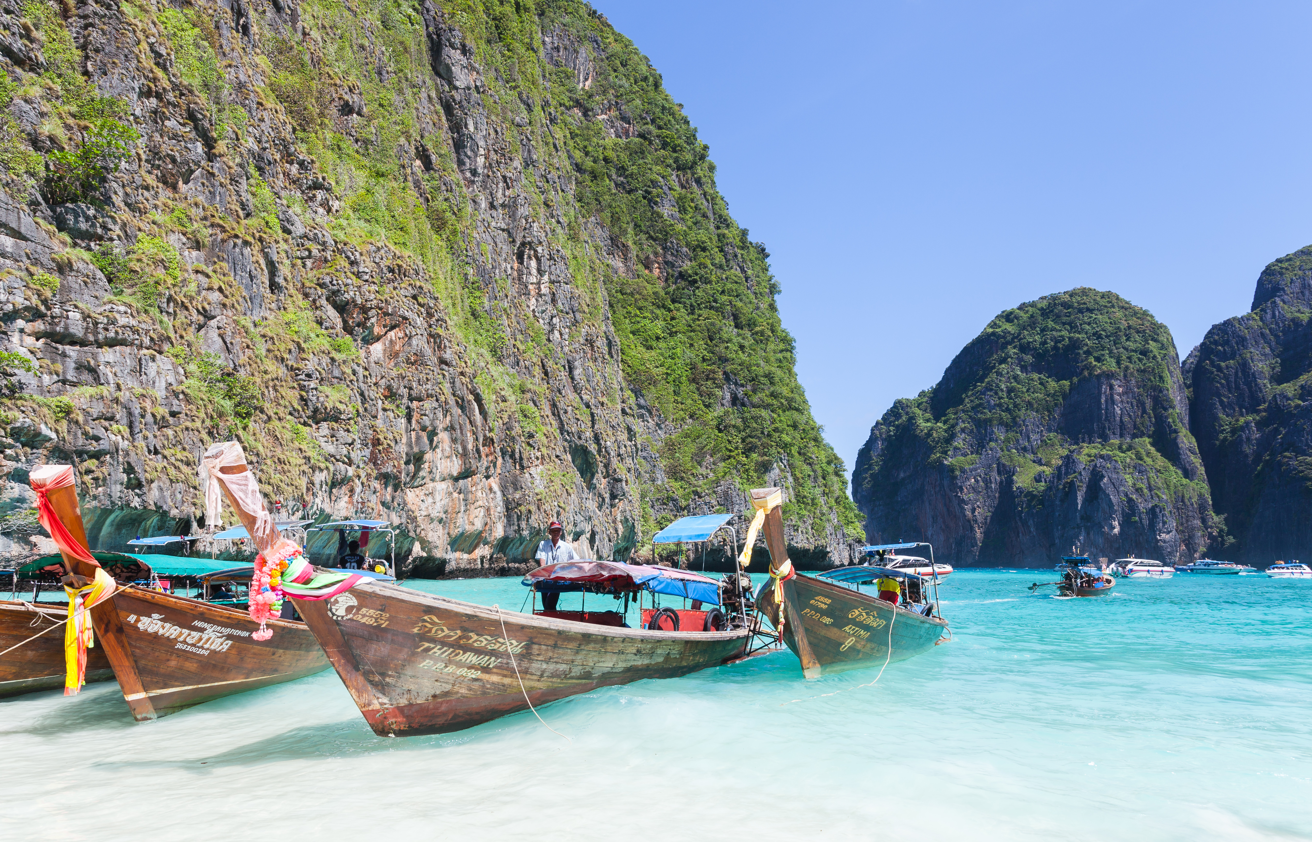 Maya Beach, Ko Phi Phi, Thailand